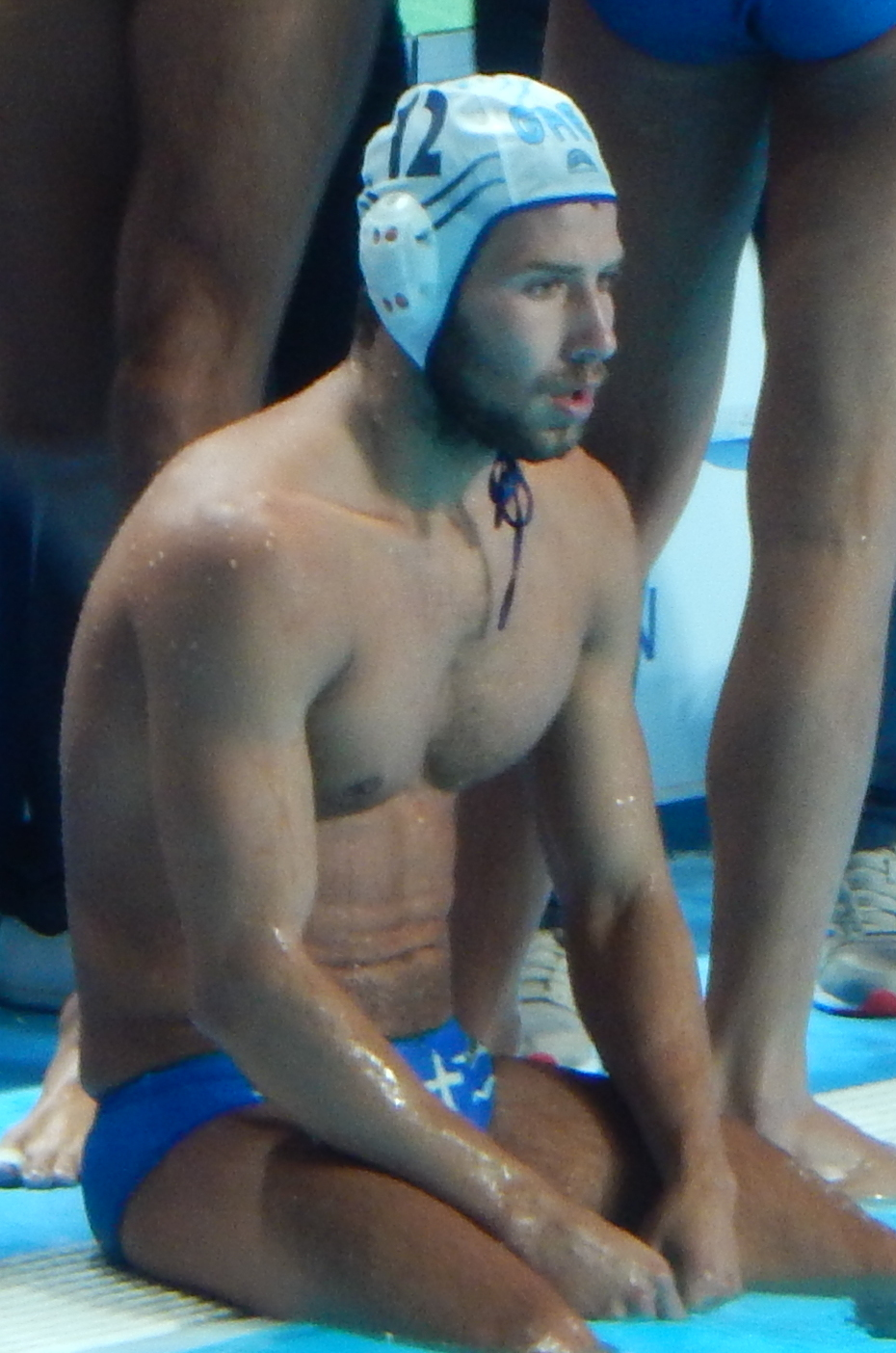 The bronze medal match between Team Greece and Team Italy. All photos have been taken from the photographers sector. I was simply usual visitor but my ticket was to non-existent seats, therefore I was moved to that sector. All good photos I upload to WikiCommons for free use.